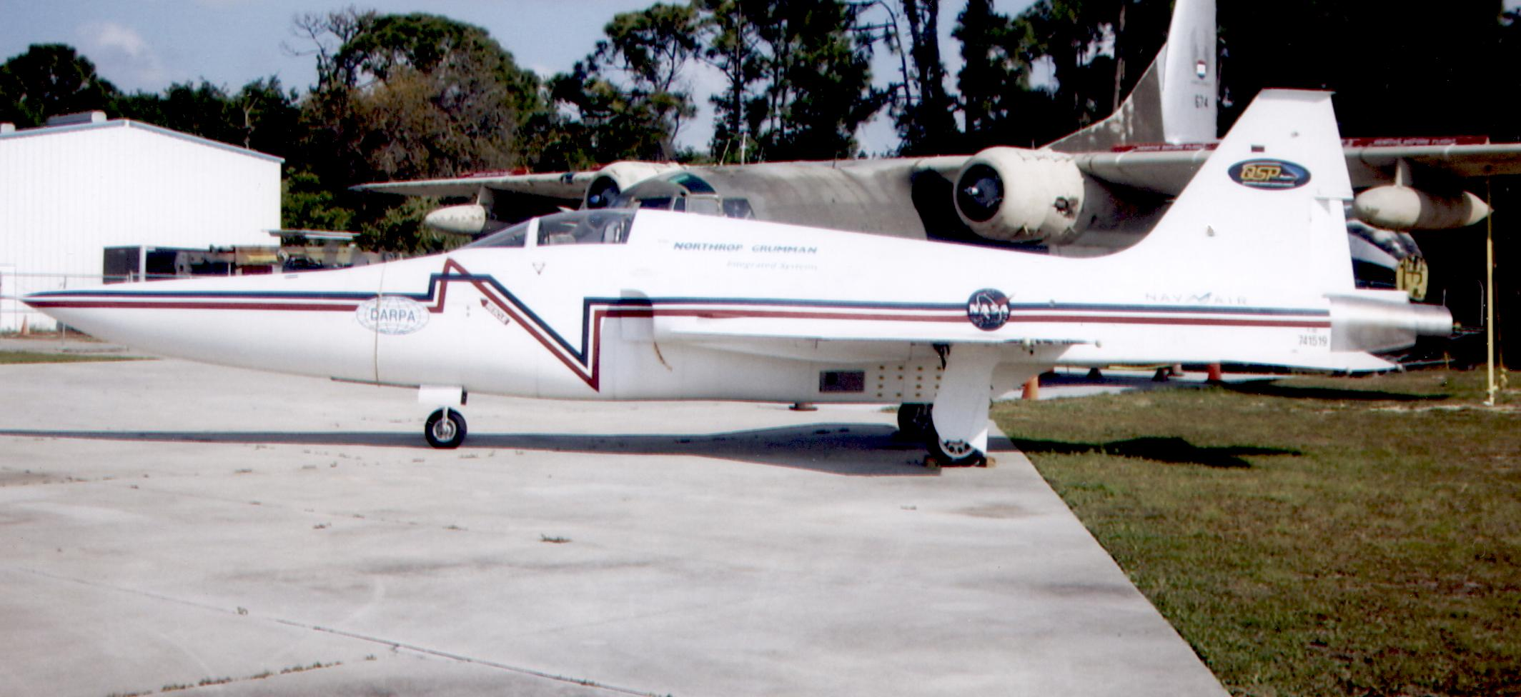 Northrop F-5E of NASA modified for sonic boom tests by DARPA. Preserved at the Valiant Air Command Museum, Titusville, Florida.